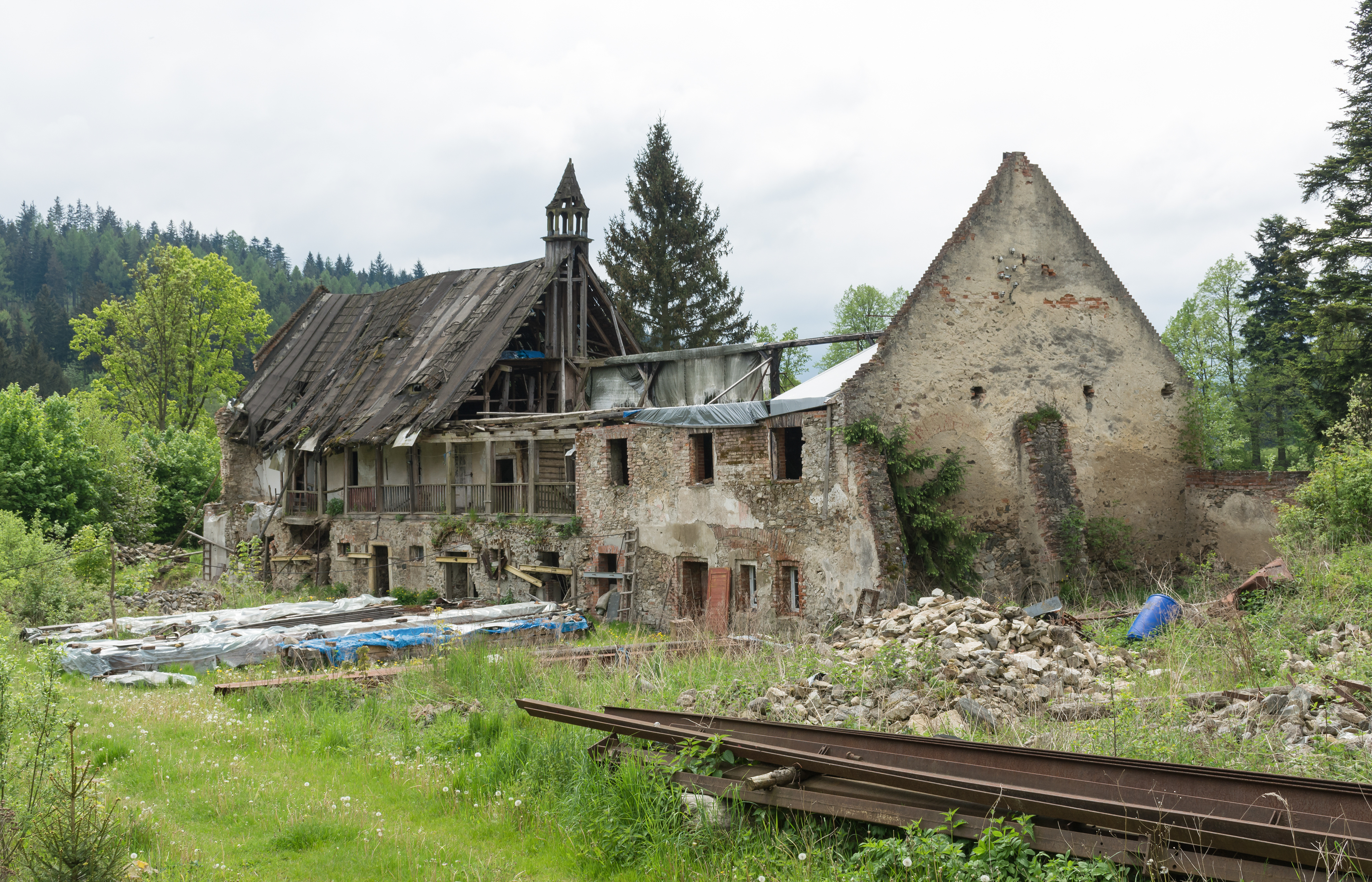 Manor in Orłowiec